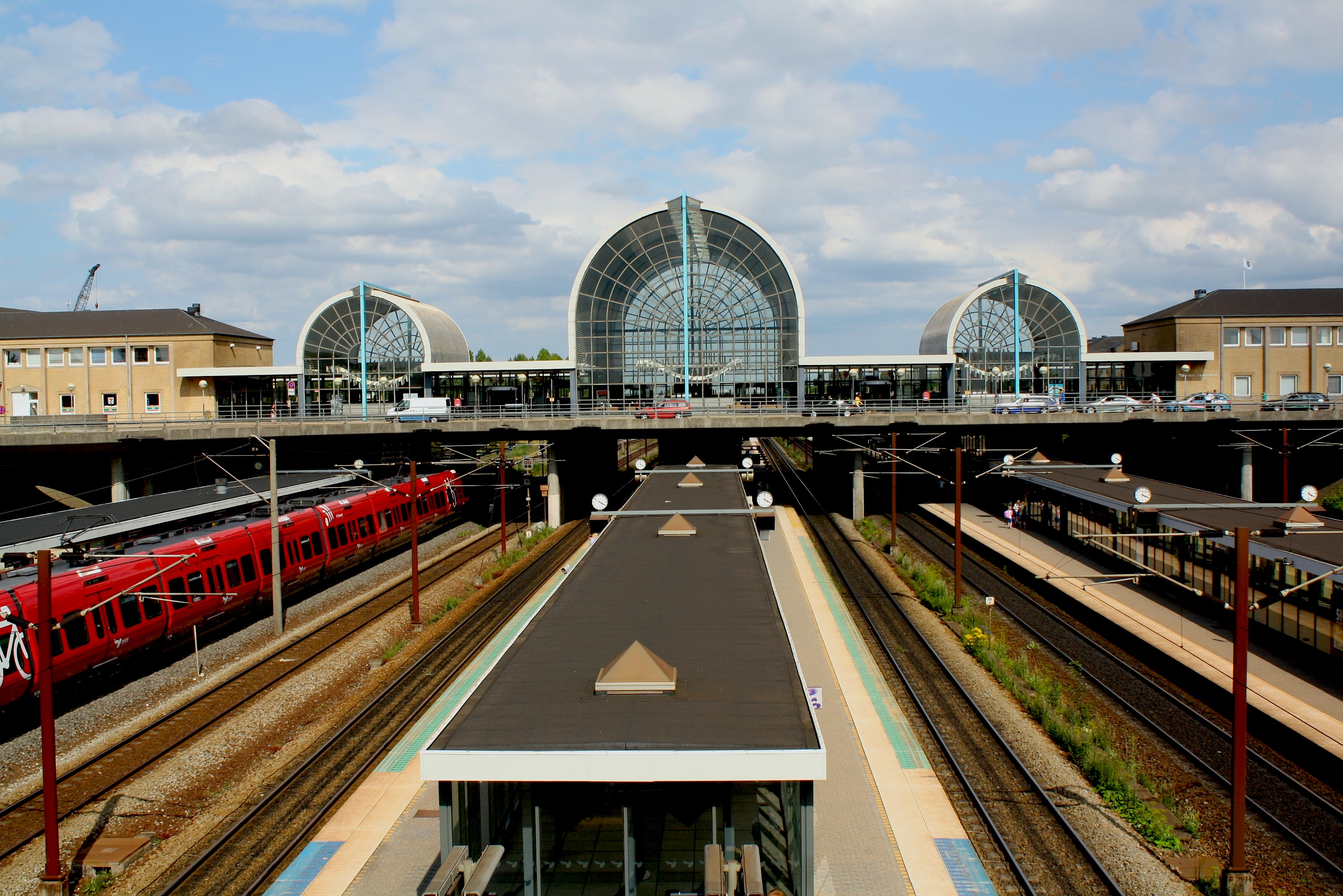 Høje Taastrup railway station, Denmark